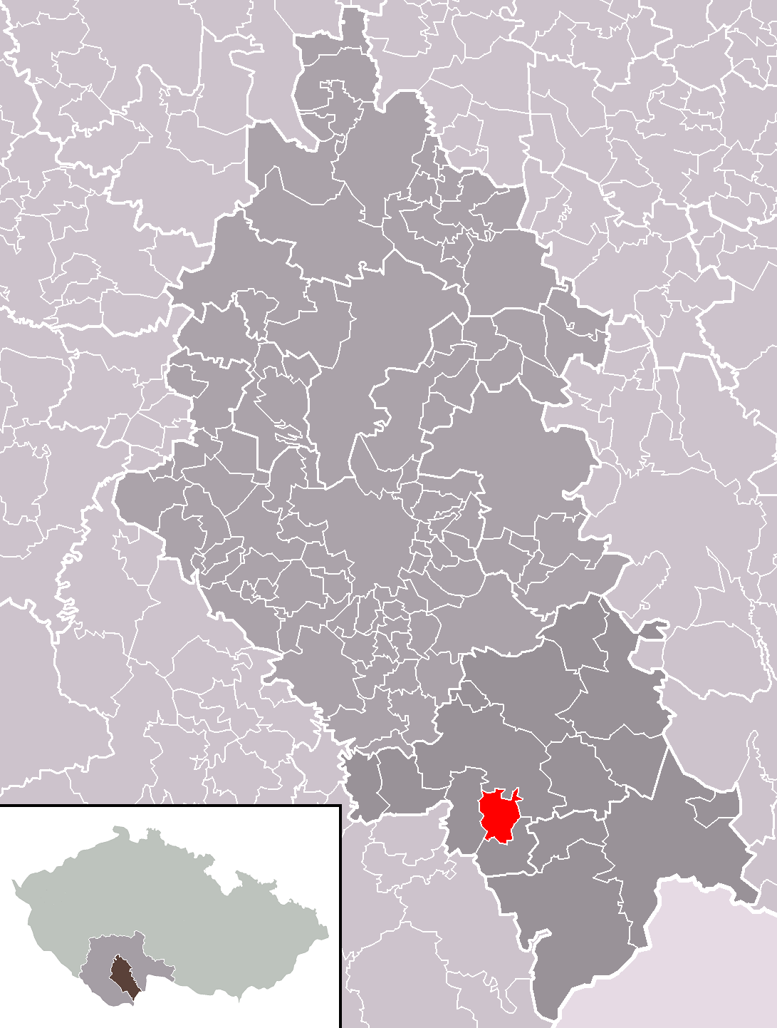 Location of Čížkrajice municipality within České Budějovice District and administrative area of Trhové Sviny as a Municipality with Extended Competence.